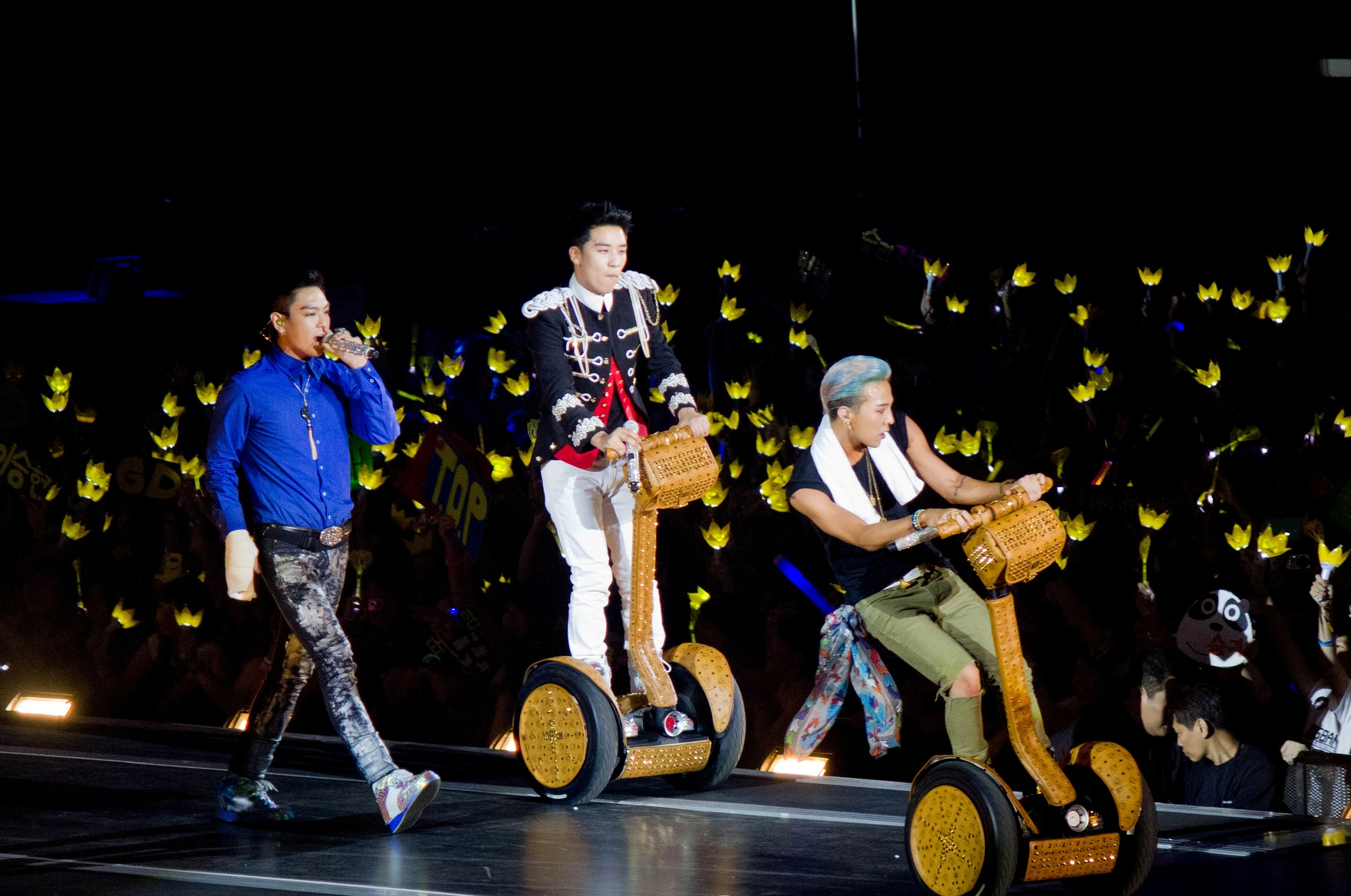 Big Bang performing on Alive World tour